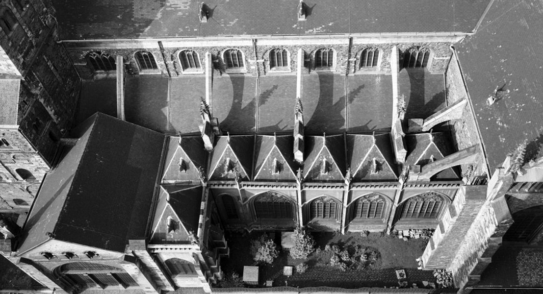 Detail of an aerial view of the south chapels of the Basilica of Saint Servatius in Maastricht, the Netherlands. The original photograph was taken in 1962 by G.Th. Delemarre (1921–) Alternative names G.Th. DelemarreDescriptionDutch photographerWorking for the Rijksdienst voor het Cultureel Erfgoed (or one of its predecessors)Date of birth 23 April 1921 Location of birth Haarlem Work period24 January 2017Work location Zeist (1949–1966); Utrecht (1966–1986)Authority control : Q18508118 VIAF: 41095407 ISNI: 0000 0000 3576 8221 LCCN: n95111220 RKD: 124313 Koninklijke: 06932610X WorldCat creator QS:P170,Q18508118 from the tower of Sint-Janskerk and donated to Wiki Commons by Rijksdienst voor het Cultureel Erfgoed on 7 January 2013.